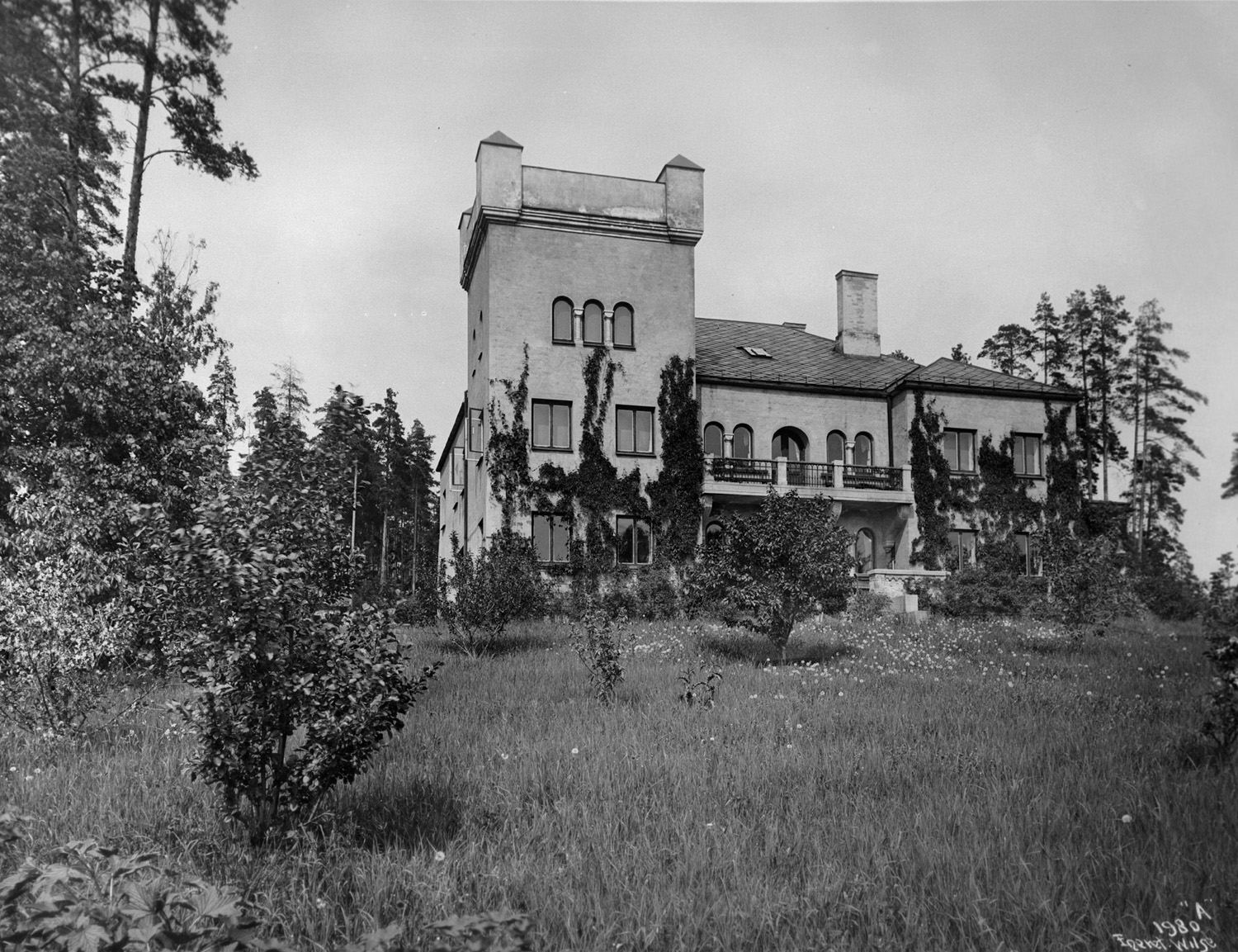 Polhøgda